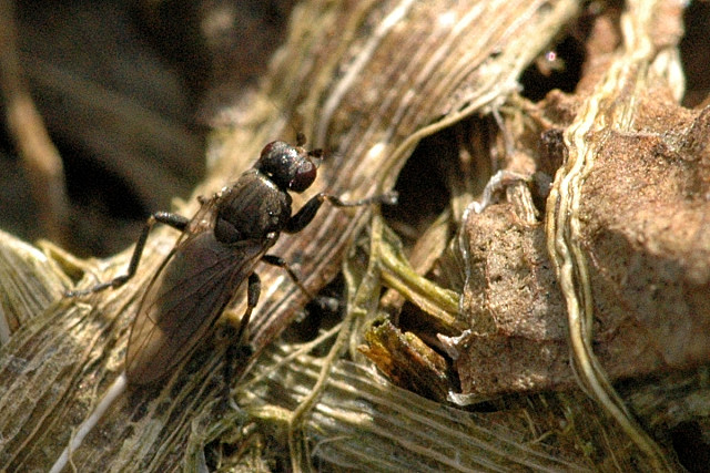 Picture taken in Commanster, Belgian High Ardennes . Species: Limosina silvatica